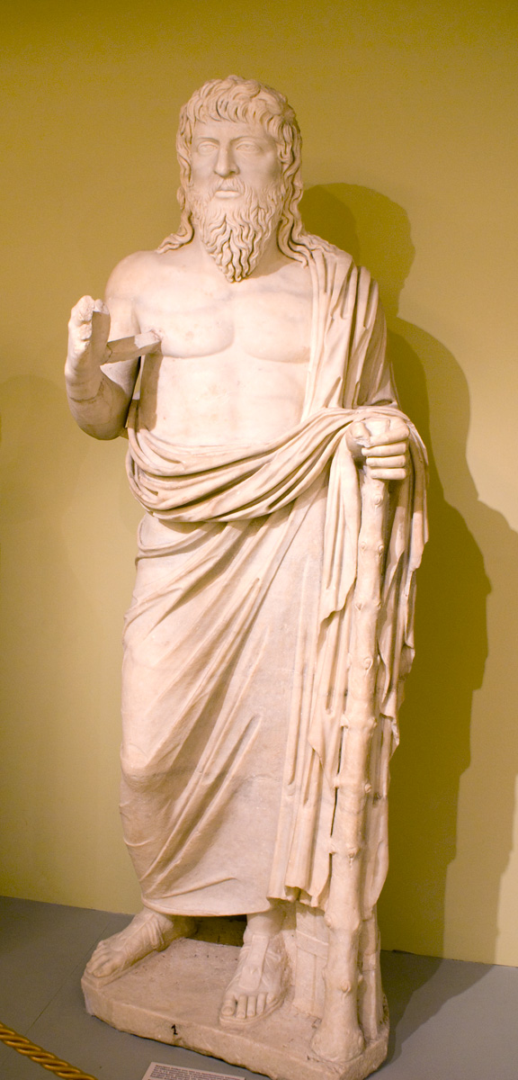 A wandering philosopher, commonly associated with Apollonius of Tyana. Heraklion Archeological Museum (Crete).